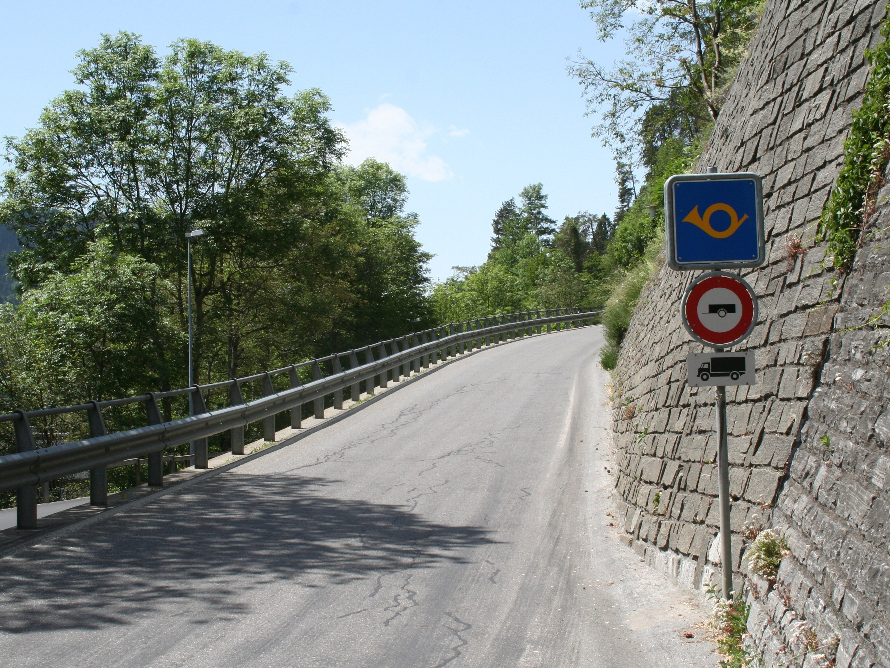 Start of the Bergpoststrasse in Ilanz which runs to Ruschein